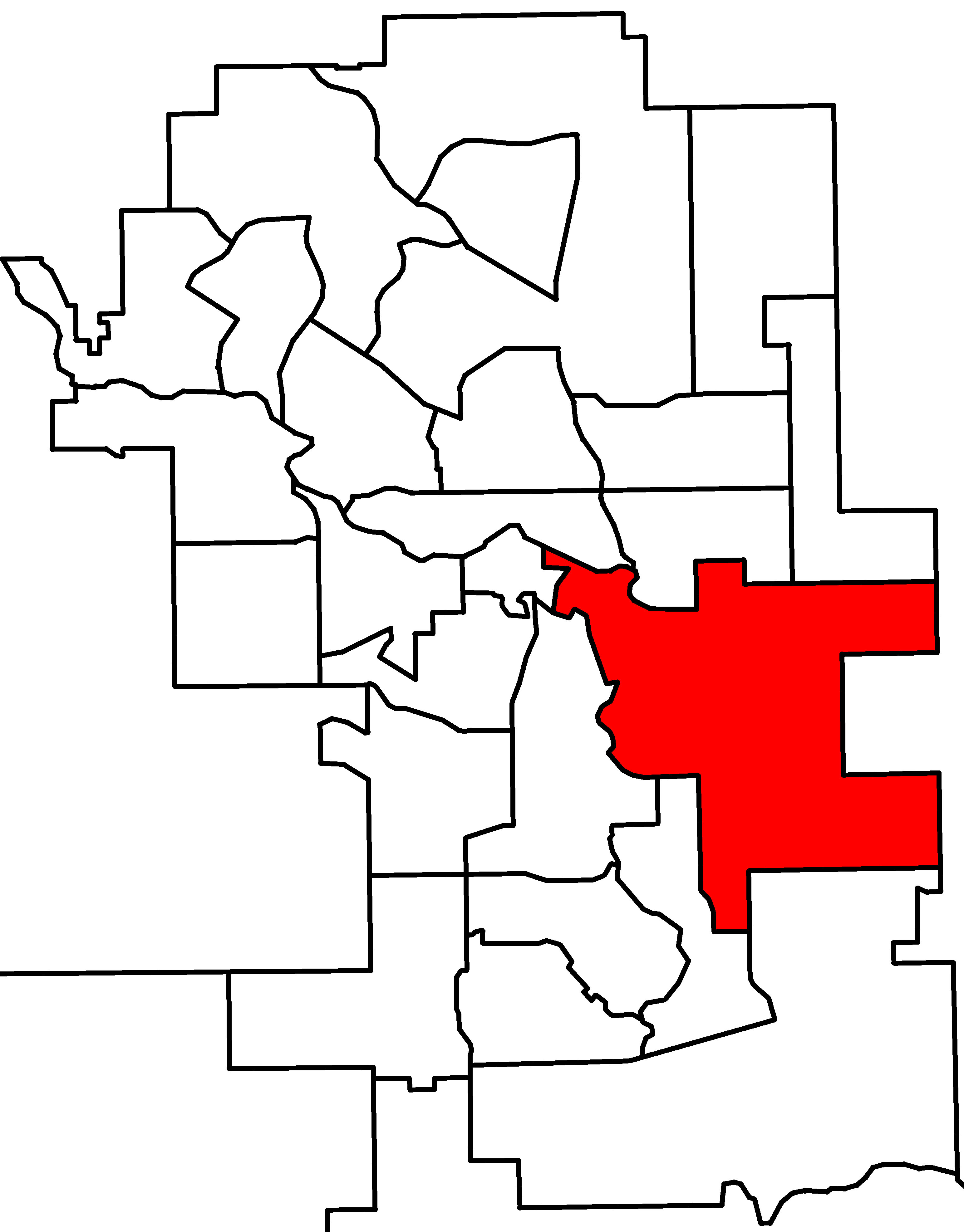 A map of Alberta provincial electoral districts, effective 2010, in the Calgary area. Calgary-Fort is highlighted in red.